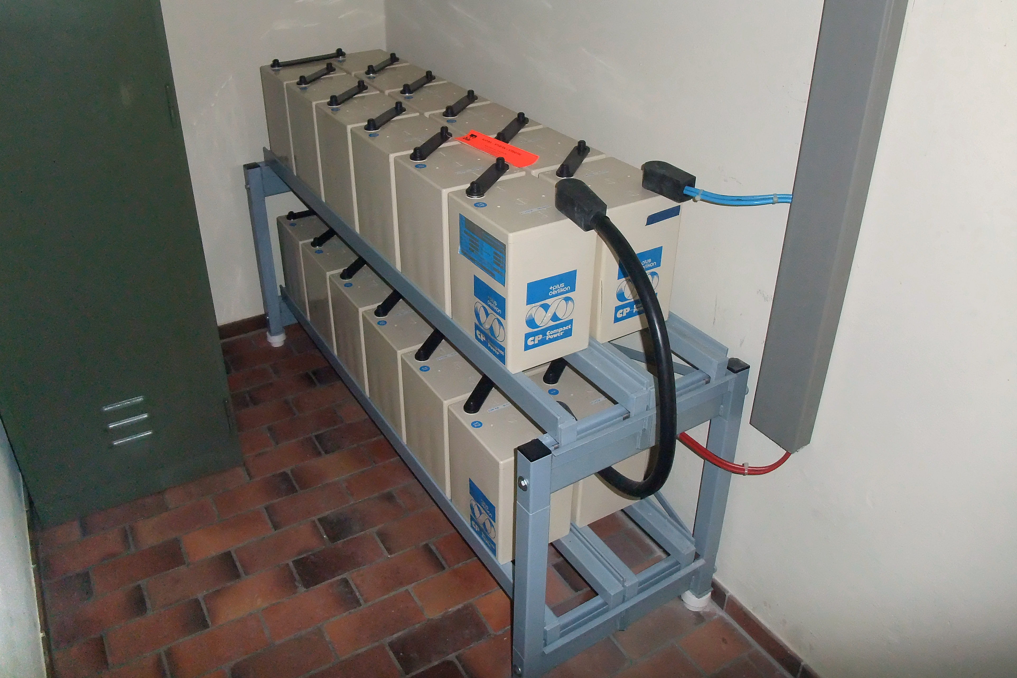 For the uninterrupted power supply of electrical equipment, there are these batteries until the emergency power supply has started up. Installations room on the lower level of the Military fortress «Furggels» above Pfäfers, St. Margrethenberg, Switzerland, Nov 6, 2010.